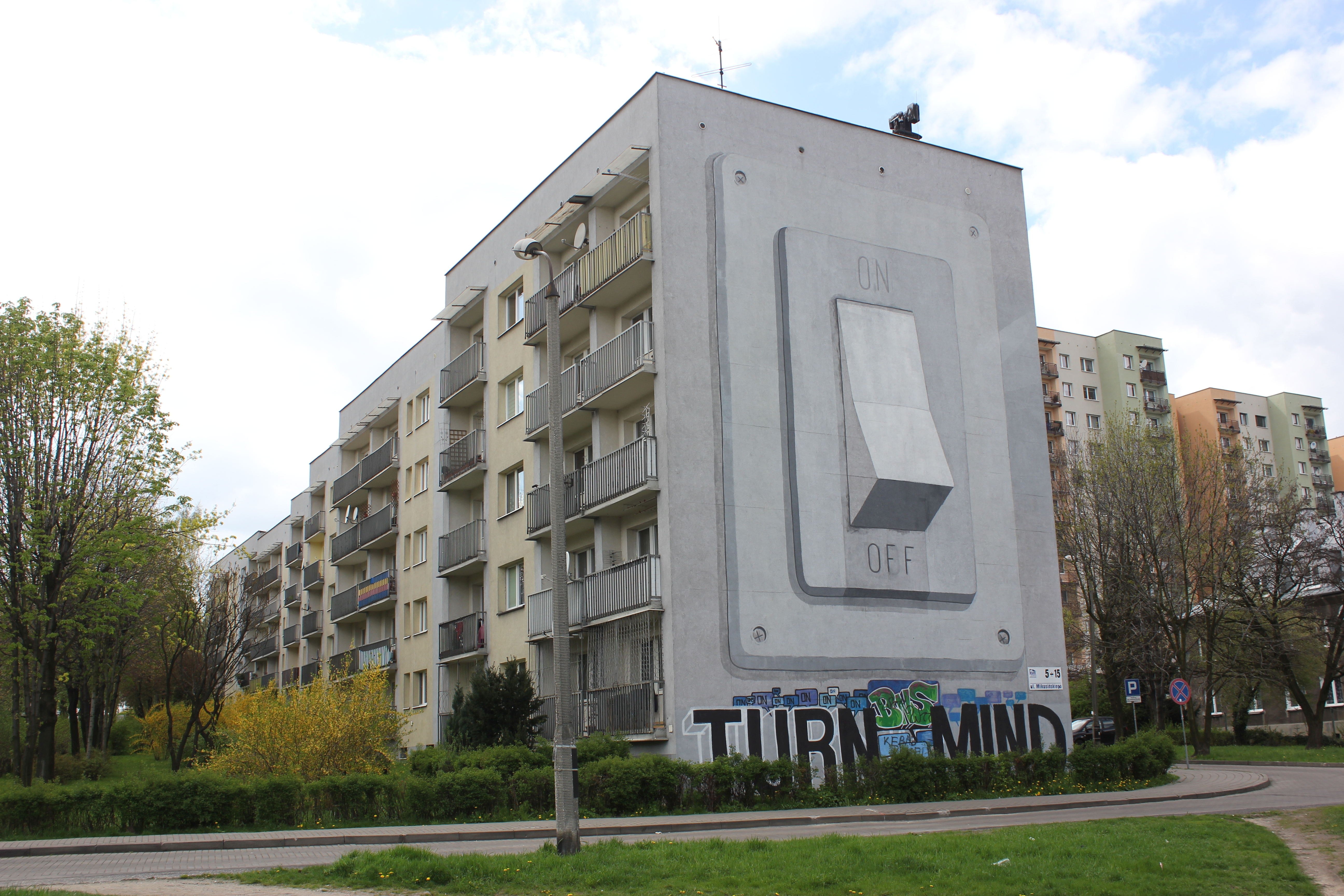 Katowice - mural "On/Off" by Escif in Mikusińskiego str.